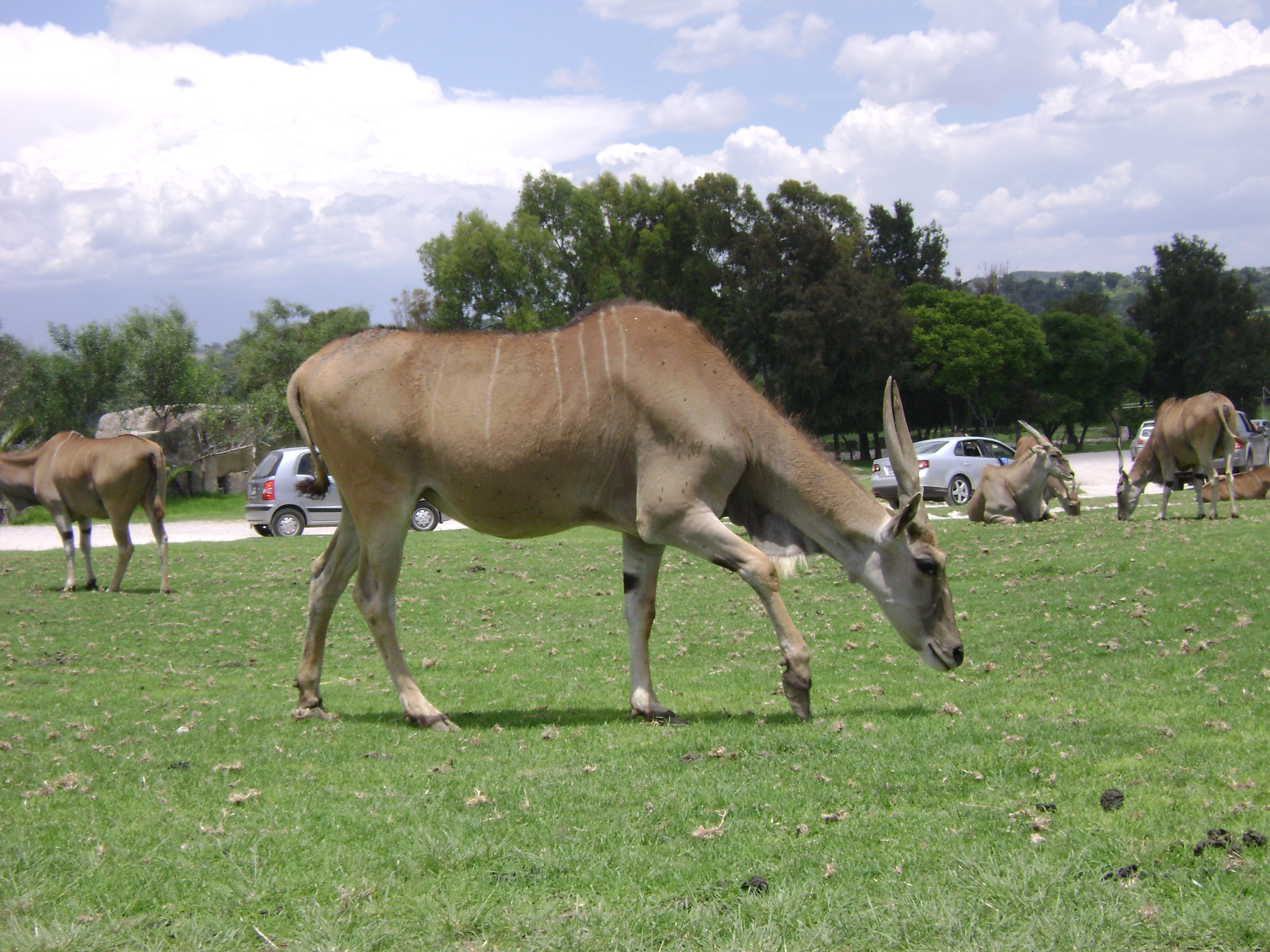 Common Elands at Africam Safari Zoo